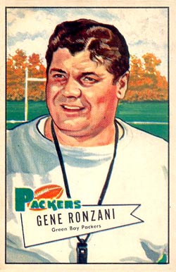 American football player Gene Ronzani on a 1952 Bowman Large card.